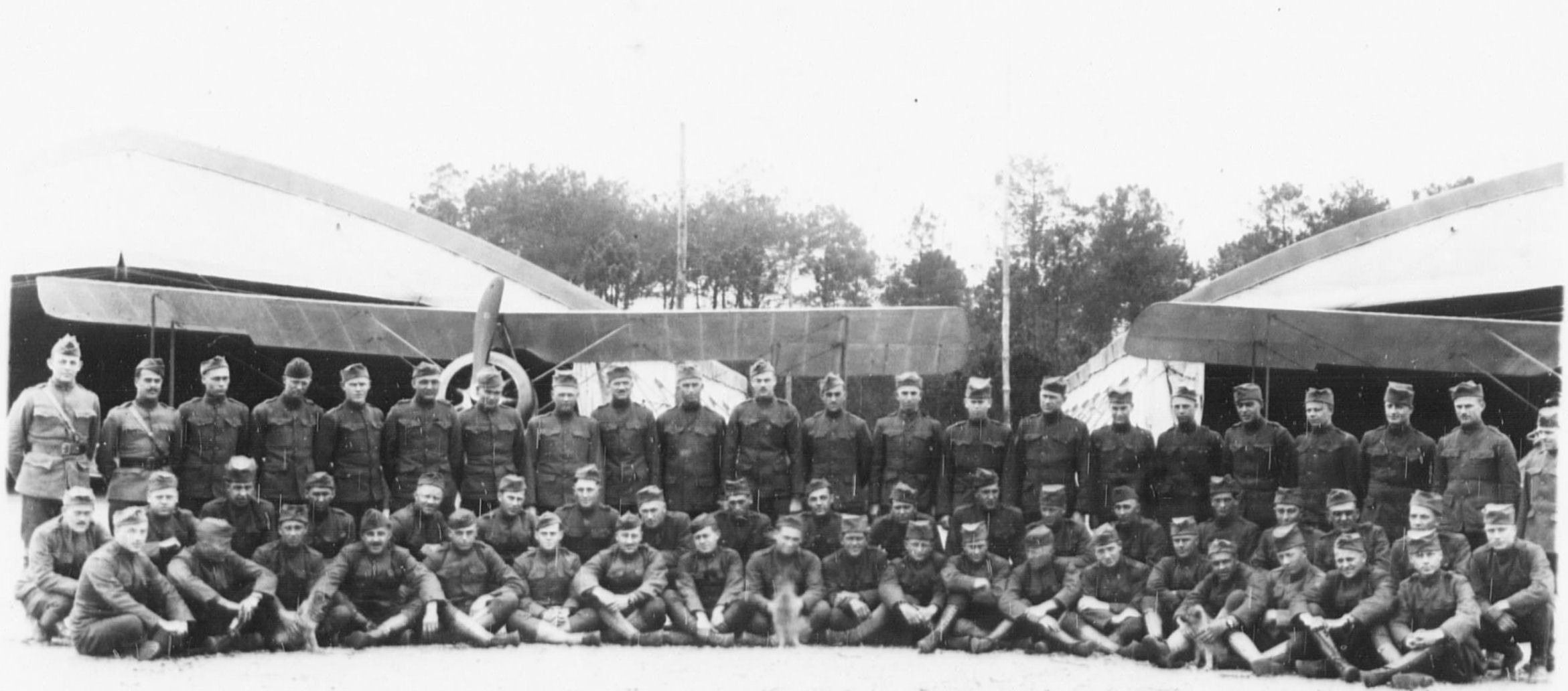 800th Aero Squadron - Headquarters Flight "A" 5th Aerial Artillery Observation School (2d AAOS), Camp de Souge, France, November 1918